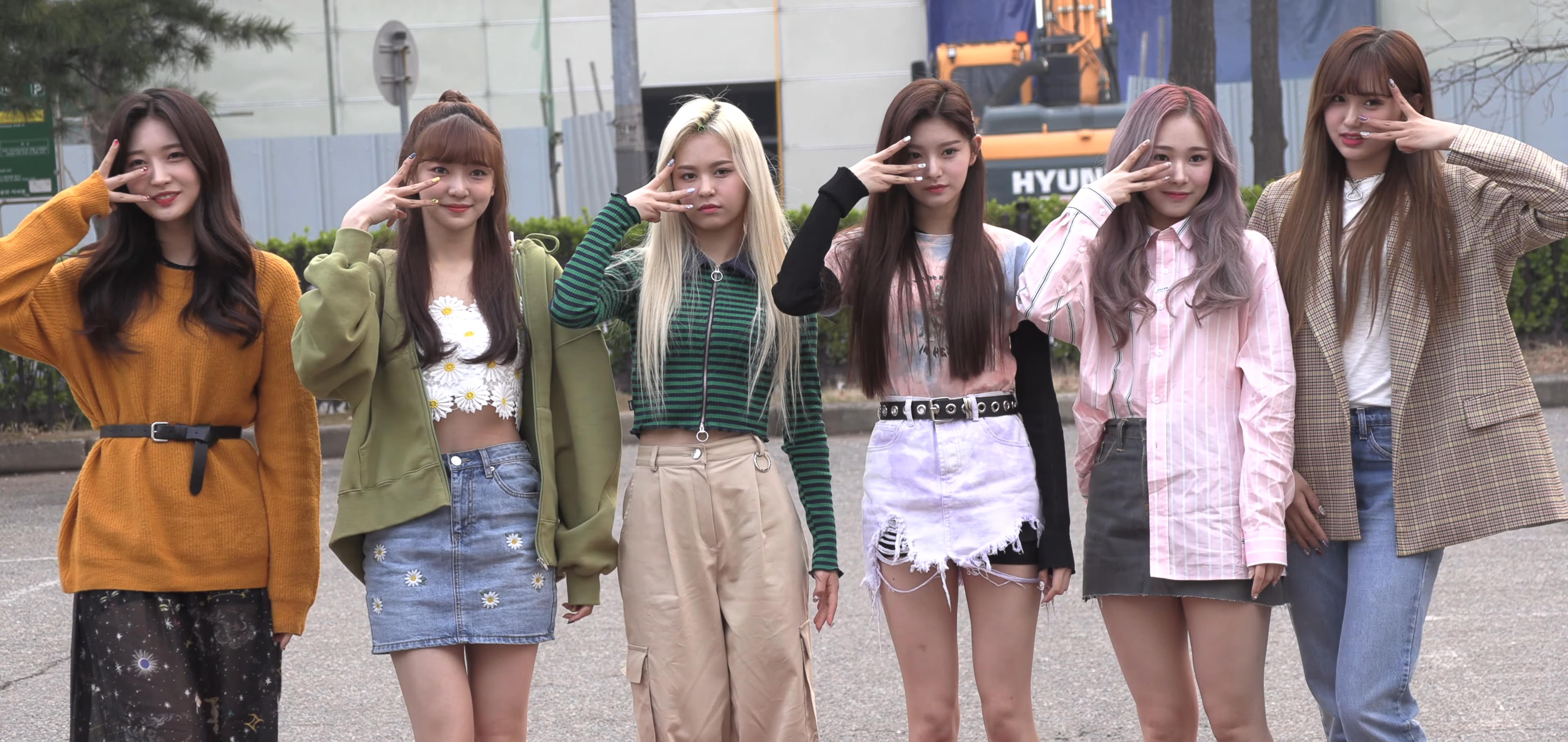 Everglow at Music Bank on April 12, 2019